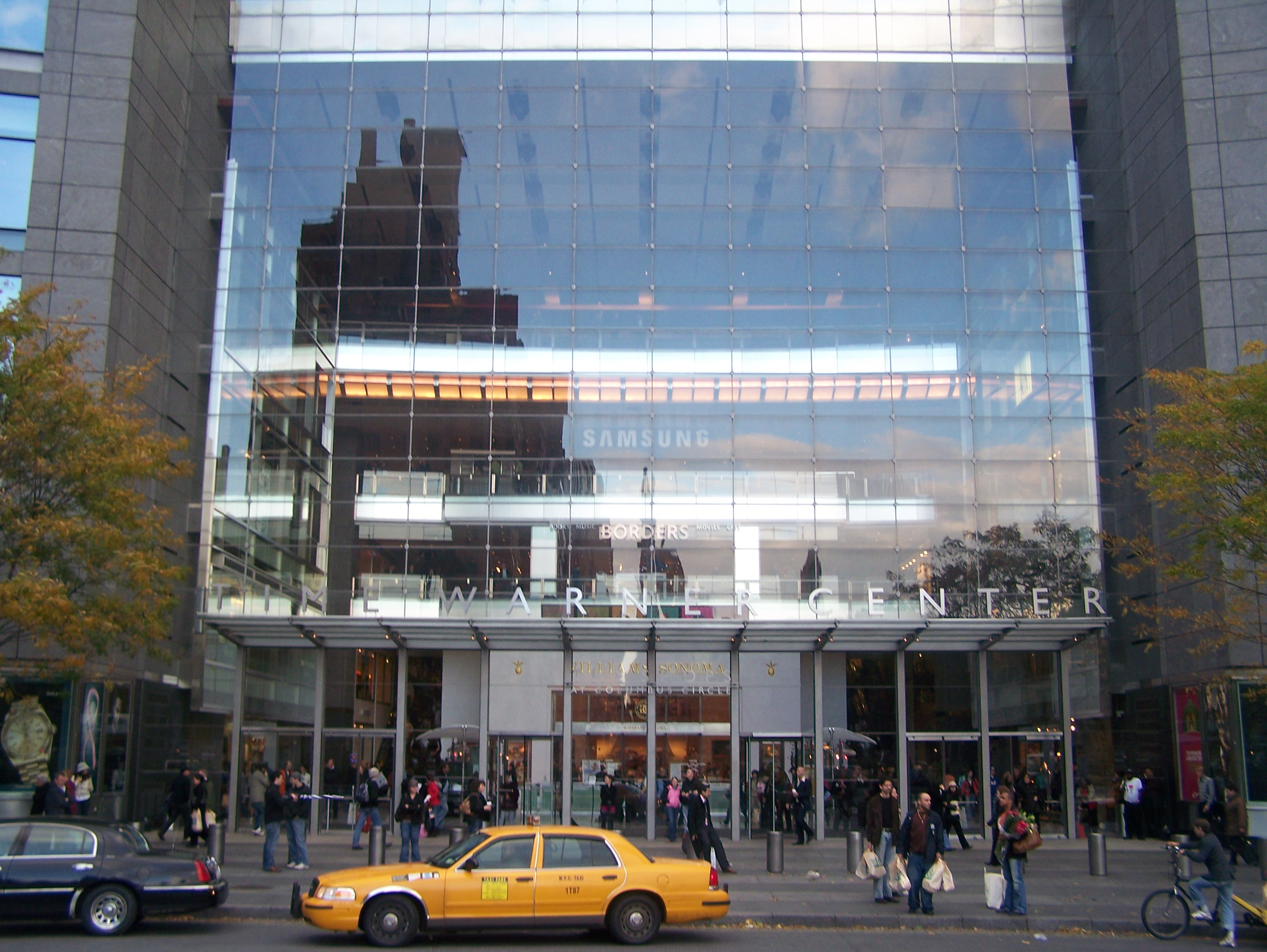 Sight of the Time Warner Center building from Columbus Circle in New York (USA).